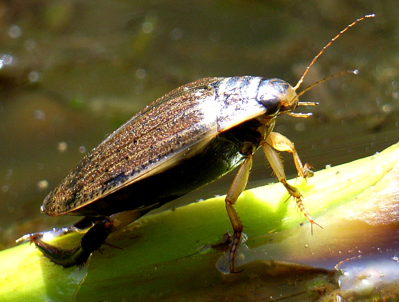 Acilius sulcatus before flying of